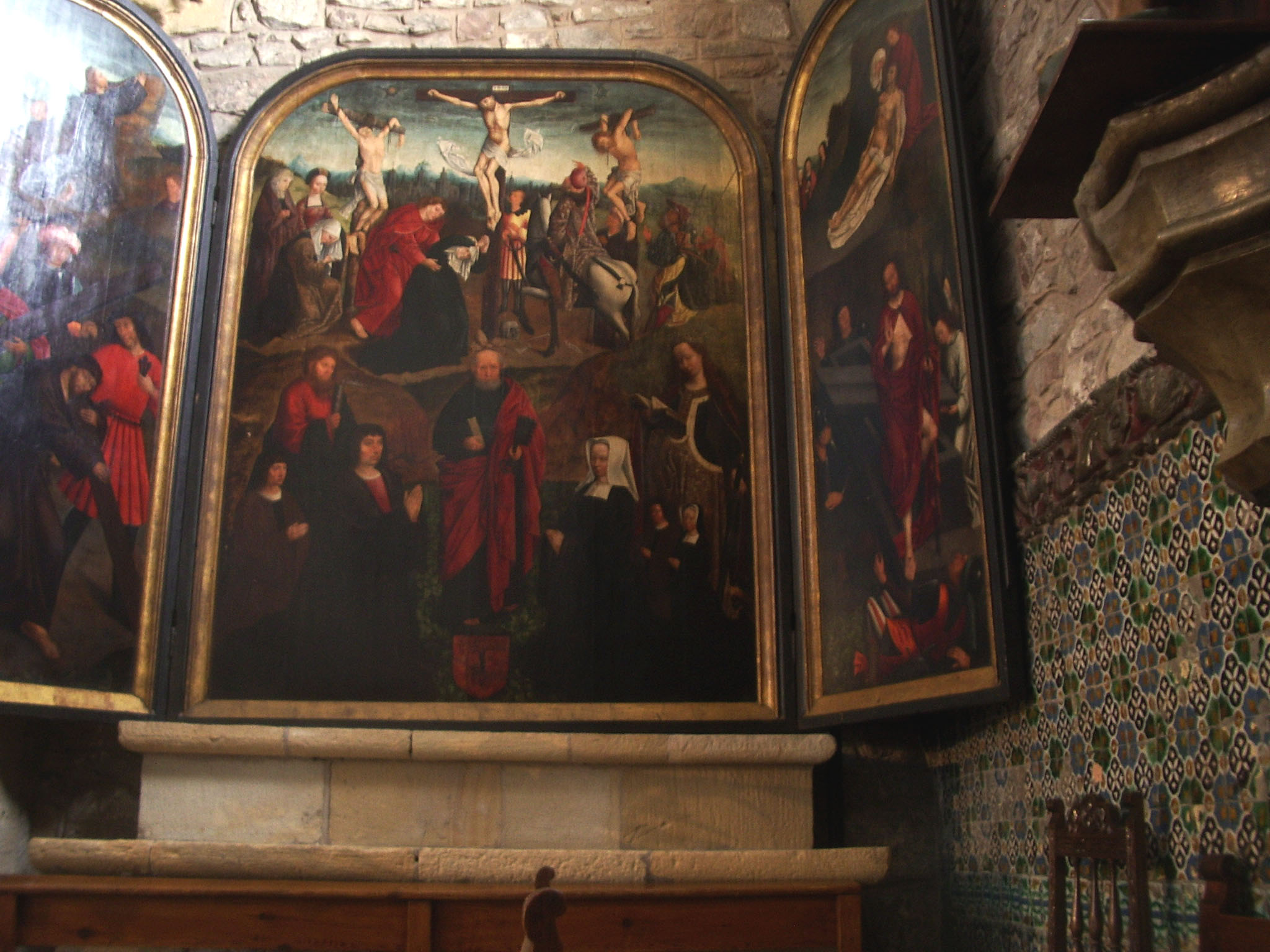 Side altarpiece in San Pedro church, Zumaia (Guipuscoa, Basque Country)